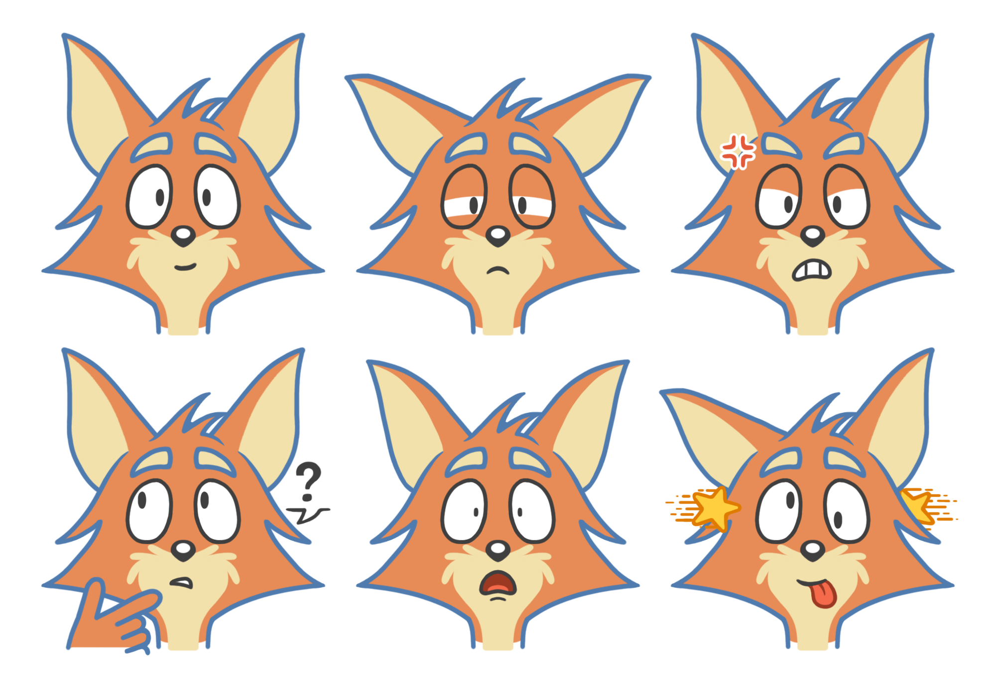 Second variant of the facial expression of Harvett Fox without background boxes.